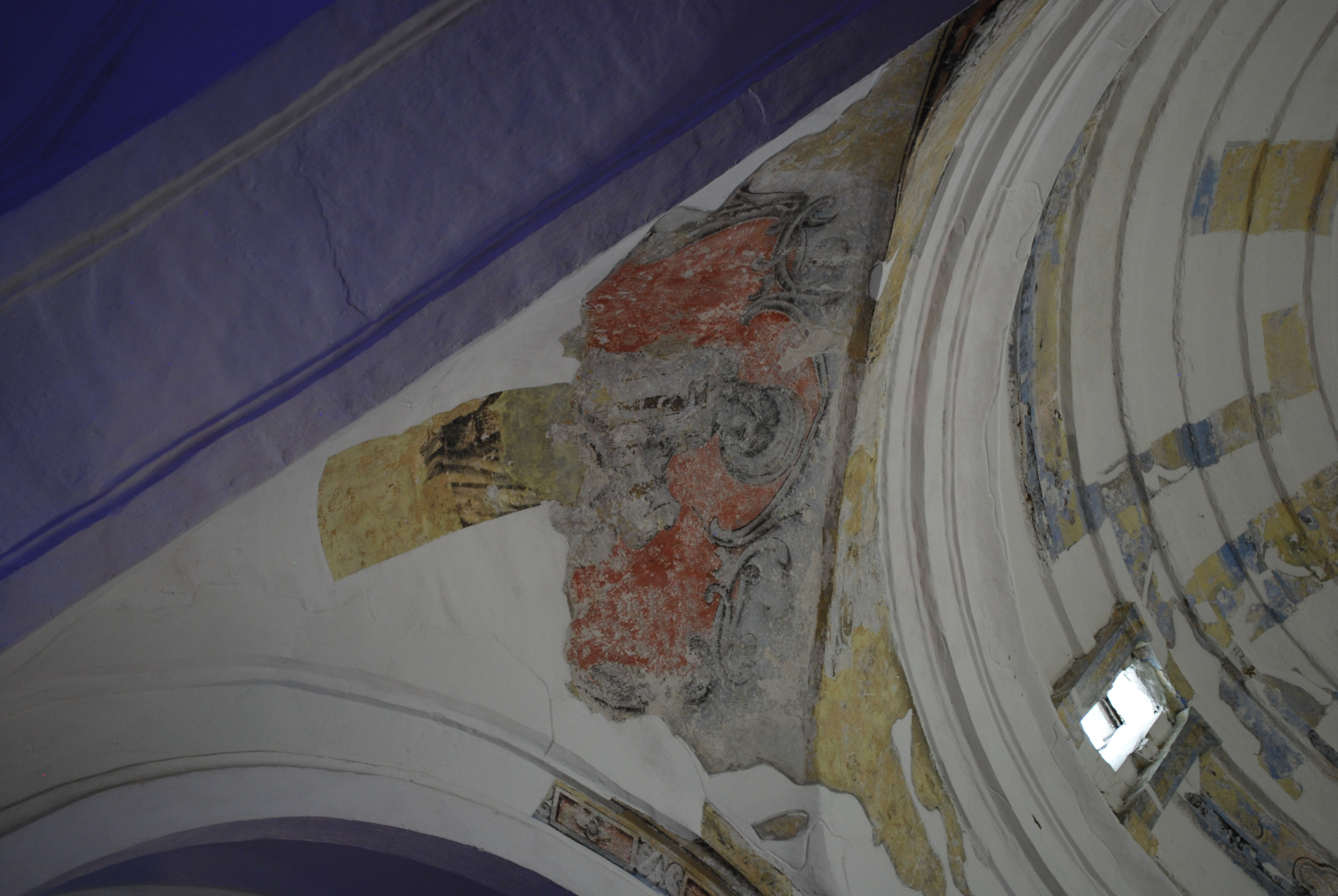 Remnants of paint on the cupola in the San Marcos cathedral in Tuxtla Gutierrez, Chiapas, Mexico